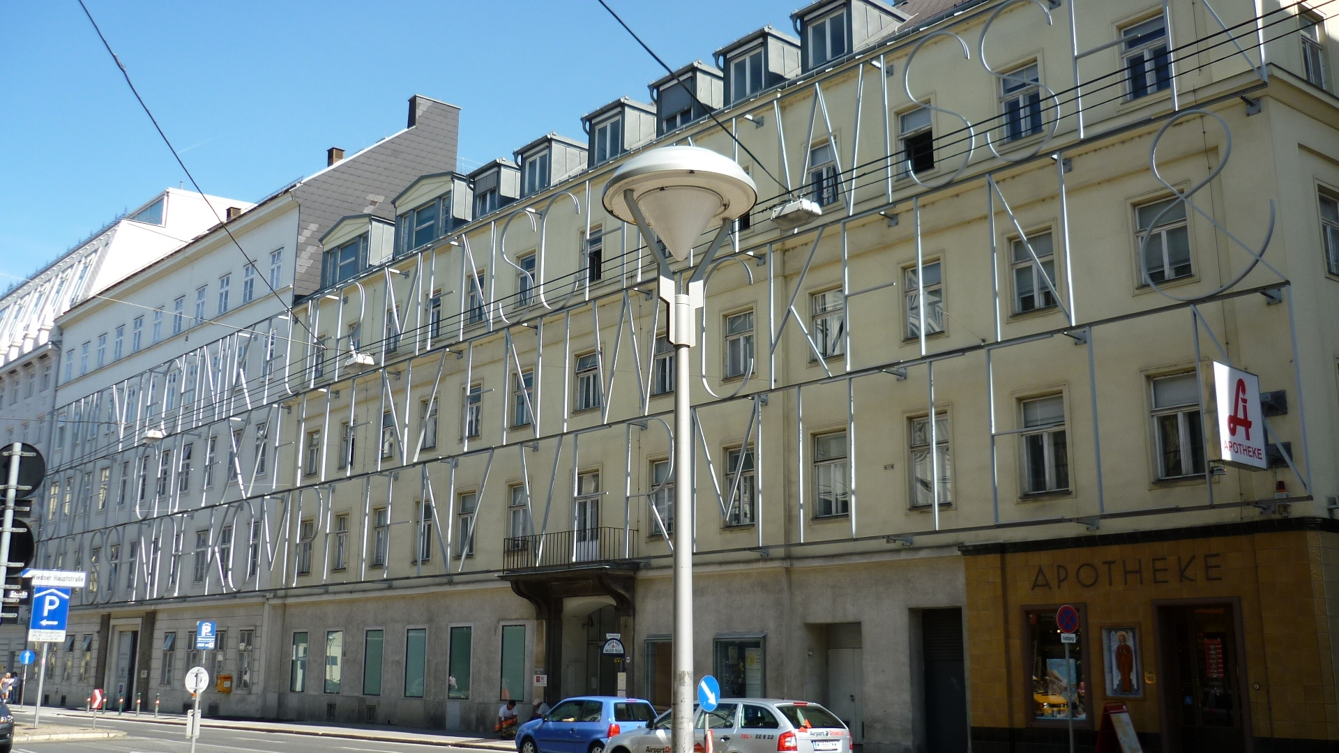 Two houses at Favoritenstrasse no. 9 and 11 at Vienna's 4th district, the front covered by an inscription in huge metal letters referring to the Vienna University of Technology using the buildings